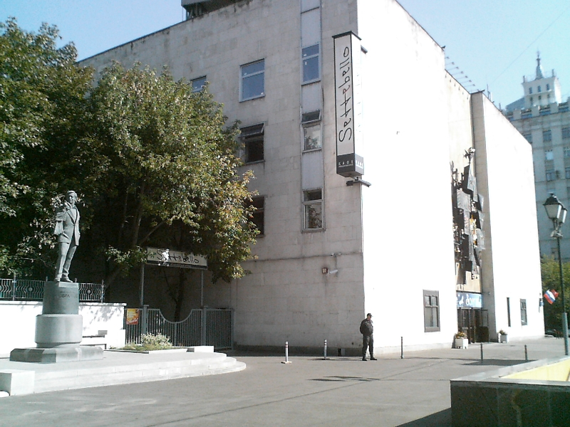 Obraztsov statue and puppet teater in Moscow